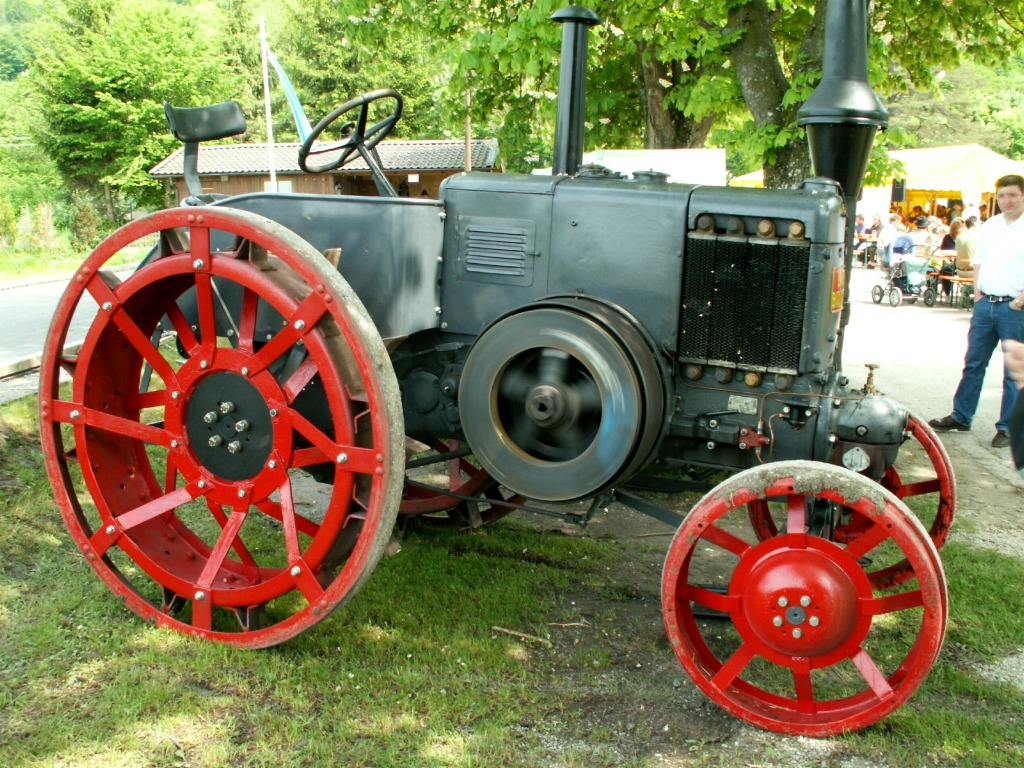 Lanz "Bulldog" D 9500 tractor, 45 horsepowers (1940)